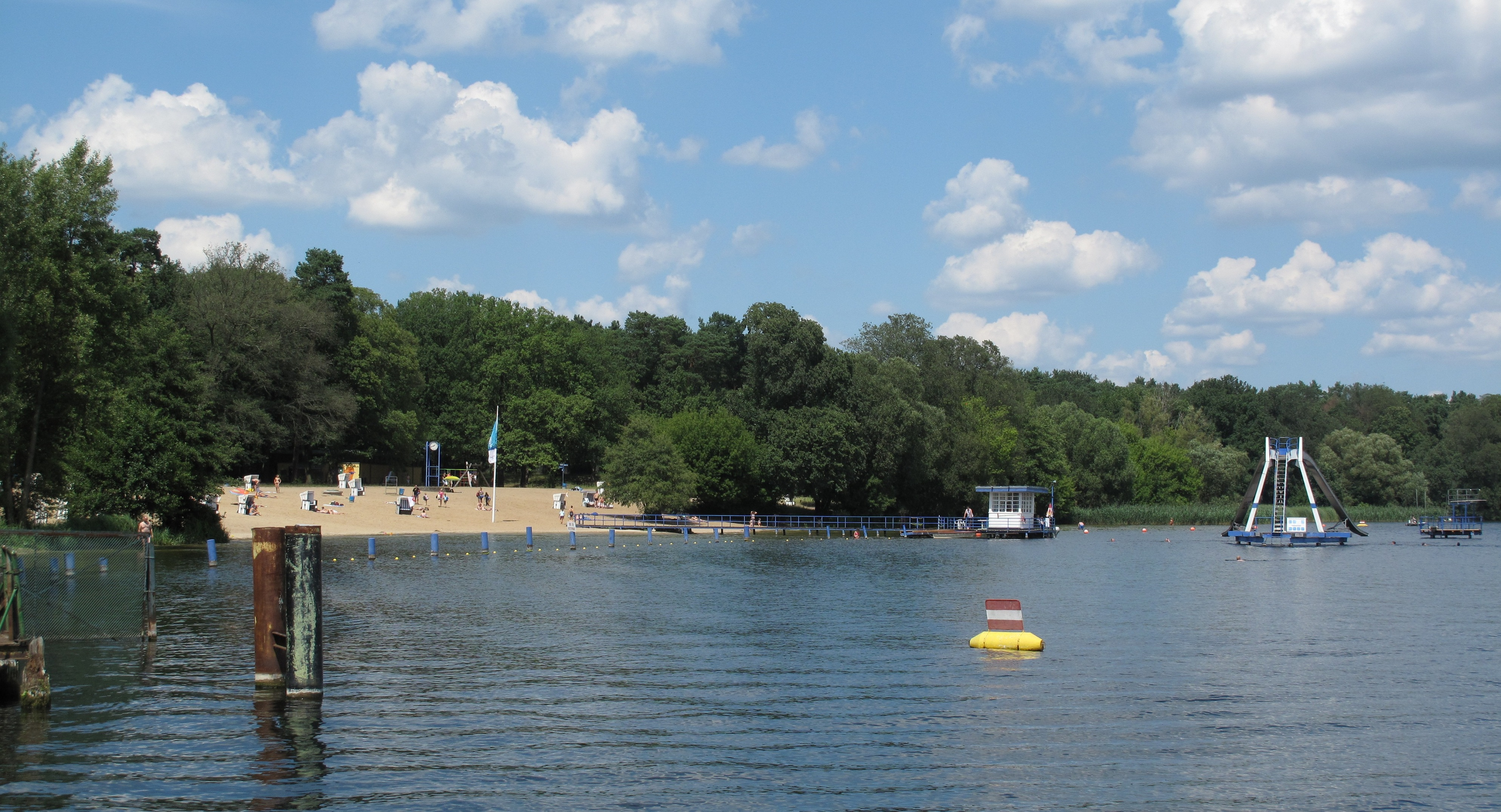 The „Freibad Tegeler See“, also known as „Strandbad Tegelsee“ or „Strandbad Tegel“, is a public open air bath in the locality Tegel, Borough Reinickendorf, Berlin. It is situated at the western bank of the Lake Tegel in the Forest Tegel, opposite the isle Lindwerder. The bath was opened in 1932 .